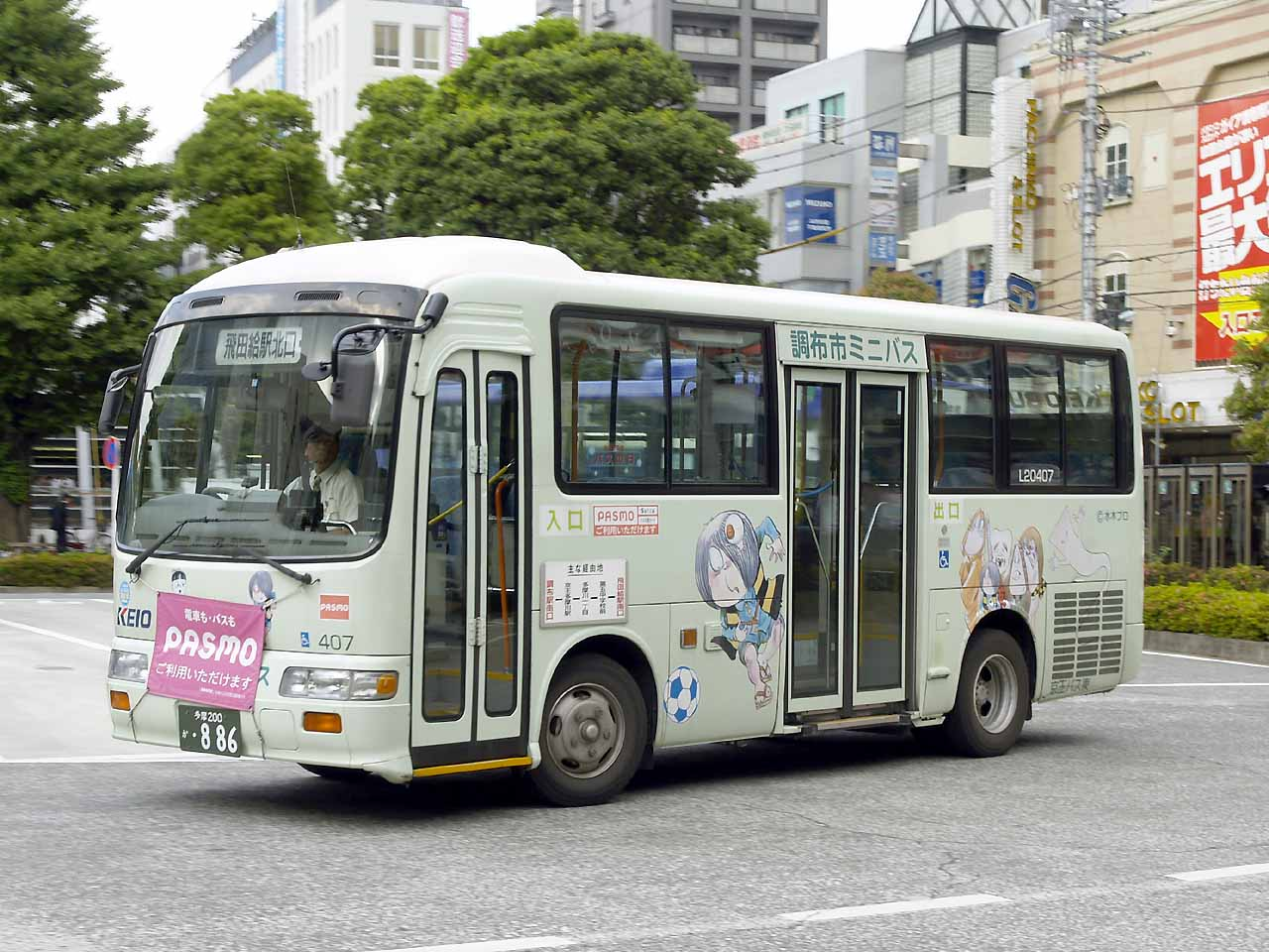 Fleet of "Chofu City Mini Bus", decorated with "GEGEGE-NO-KITARO" illutration. Model: Hino Liesse KK-RX4JFEA License plate: TKT200 KA-886 Plaxce: Keio Railways Chofu Station: Chofu City, Tokyo Japan